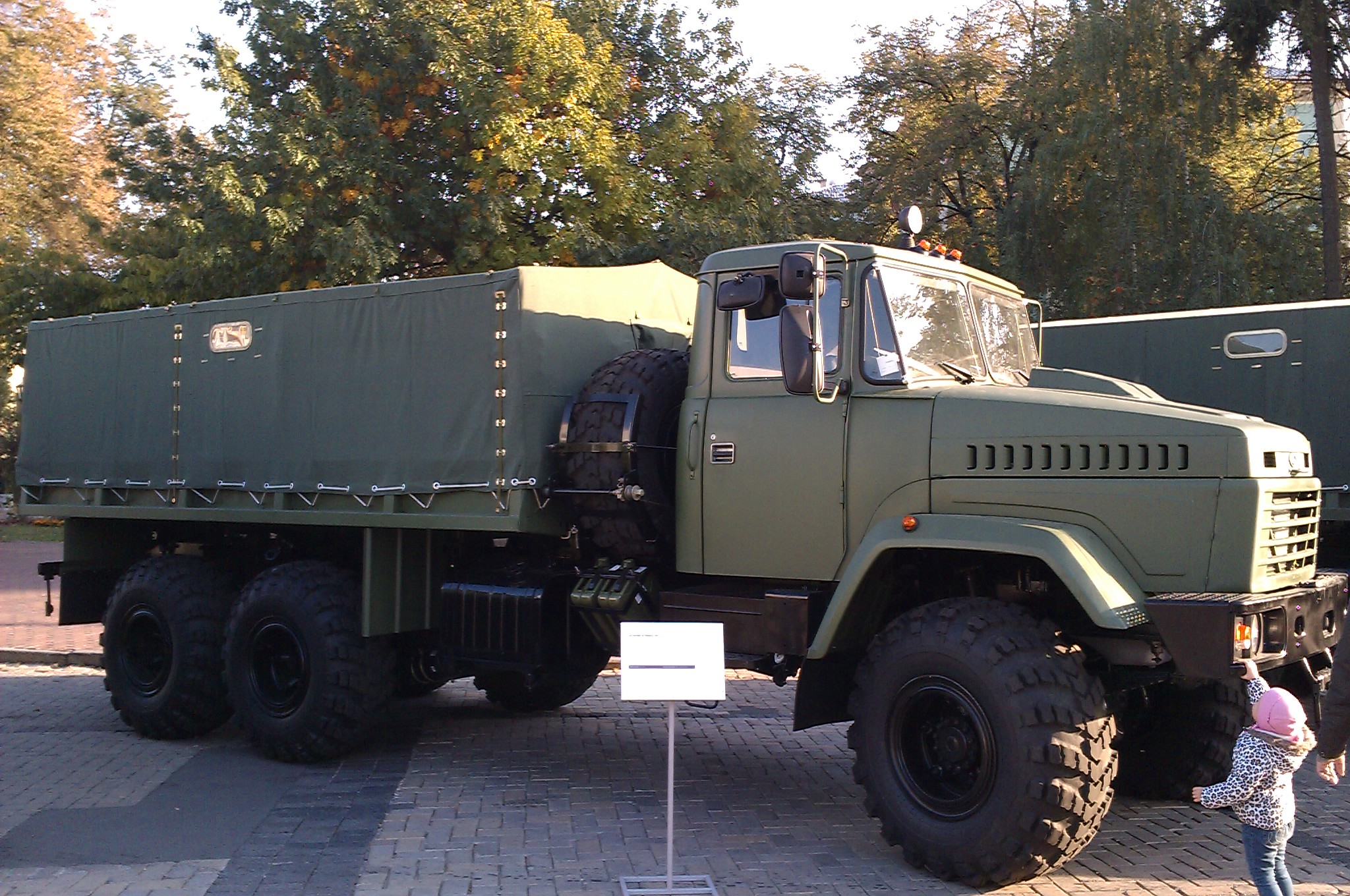 KrAZ-6322 at the exhibition «The Power of unconquered» on the Day of the defender of Ukraine